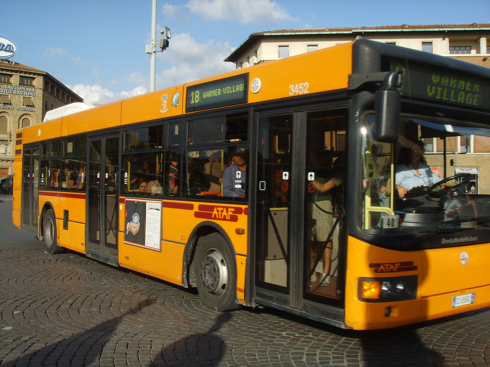 BredaMenarinibus M240LU in Florence, Italy. Year built 2003.